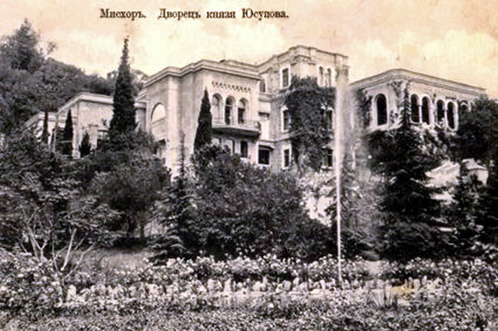 The dacha of Prince Yusupov in Miskhor